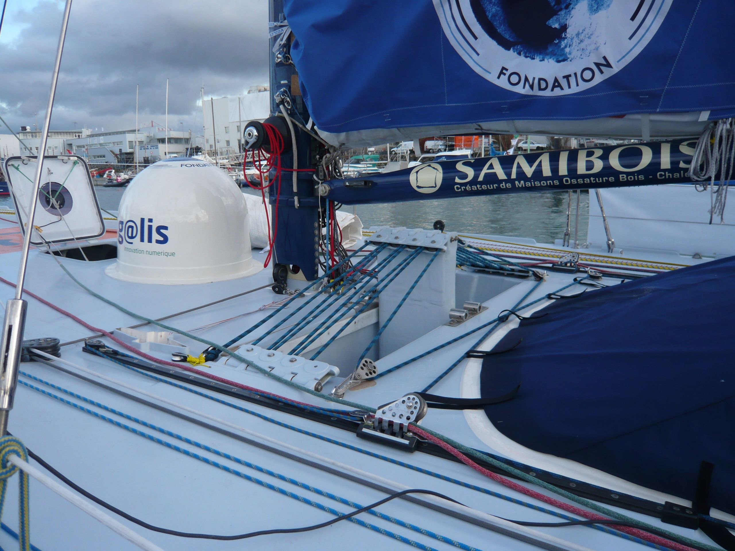 Manual swing keel on 60 feet monohull